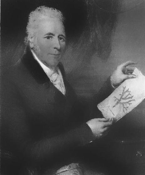 Portrait of John Stackhouse (1742–1819), English botanist, from Illustrationes Theophrasti in usum botanicorum (1811).